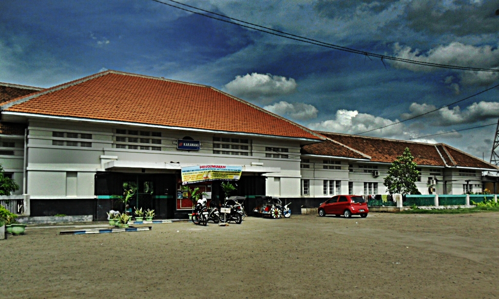 Karawang Train Station, West Java, Indonesia (front view).